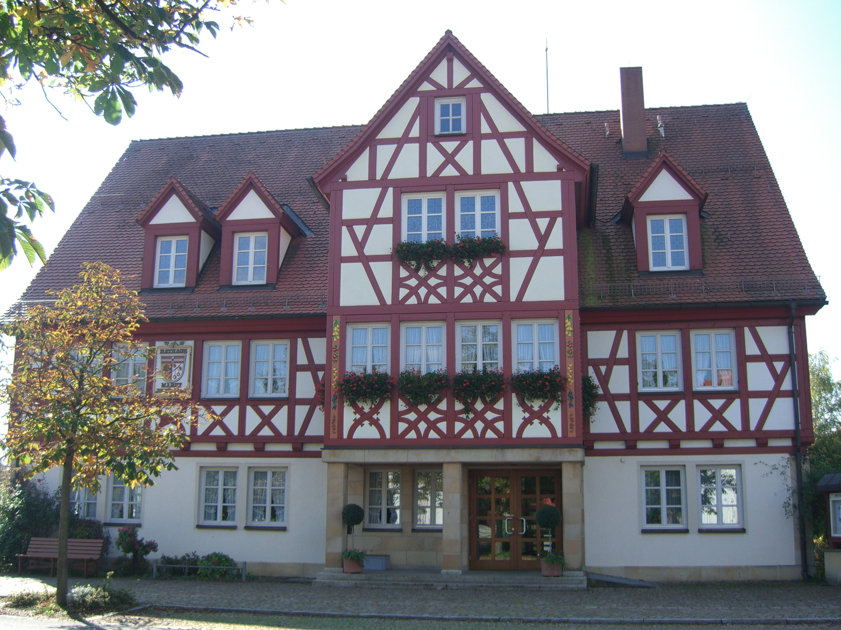 Frontside of the town hall of Igensdorf in Bavaria, Germany.